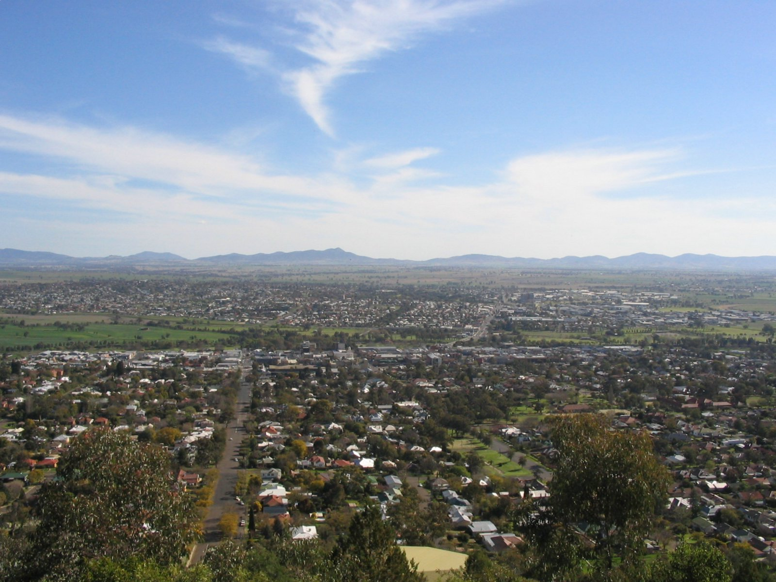 Tamworth, NSW, Australia. Photo taken from lookout.